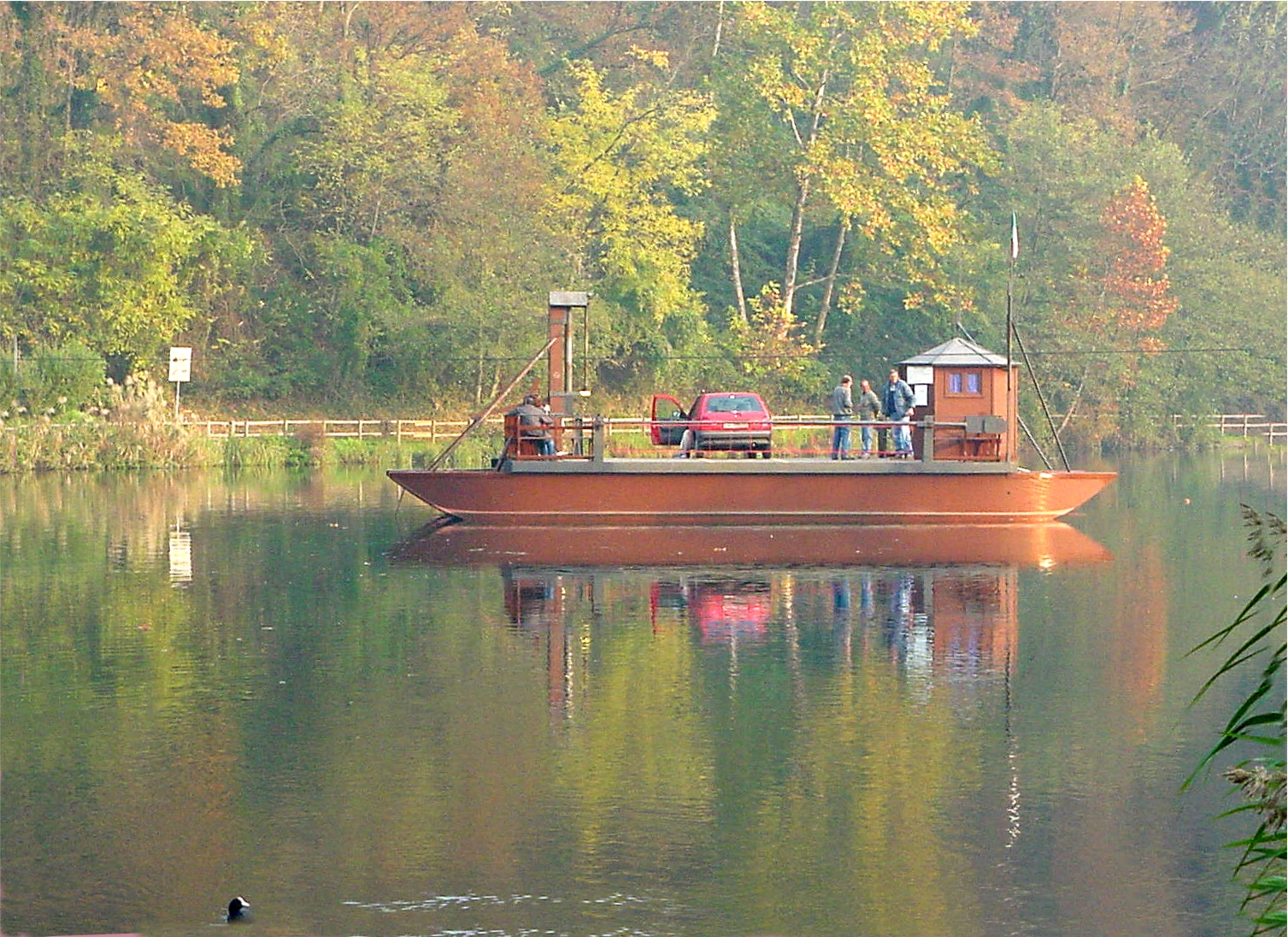 Ferry designed by Leonardo da Vinci